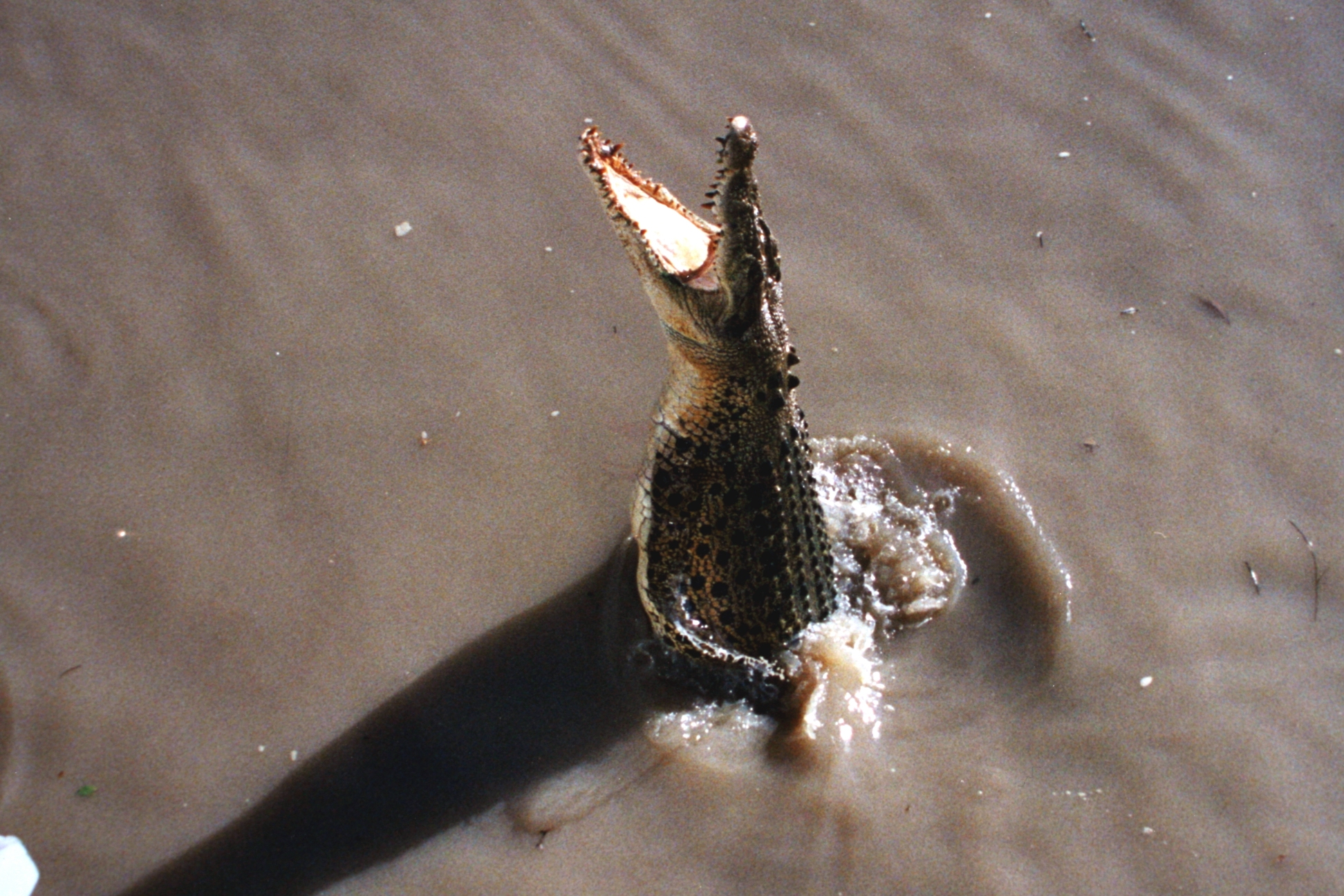 Salt water crocodile in Kakadu National Park, the Northern Territory of Australia The picture was taken by Brocken Inaglory